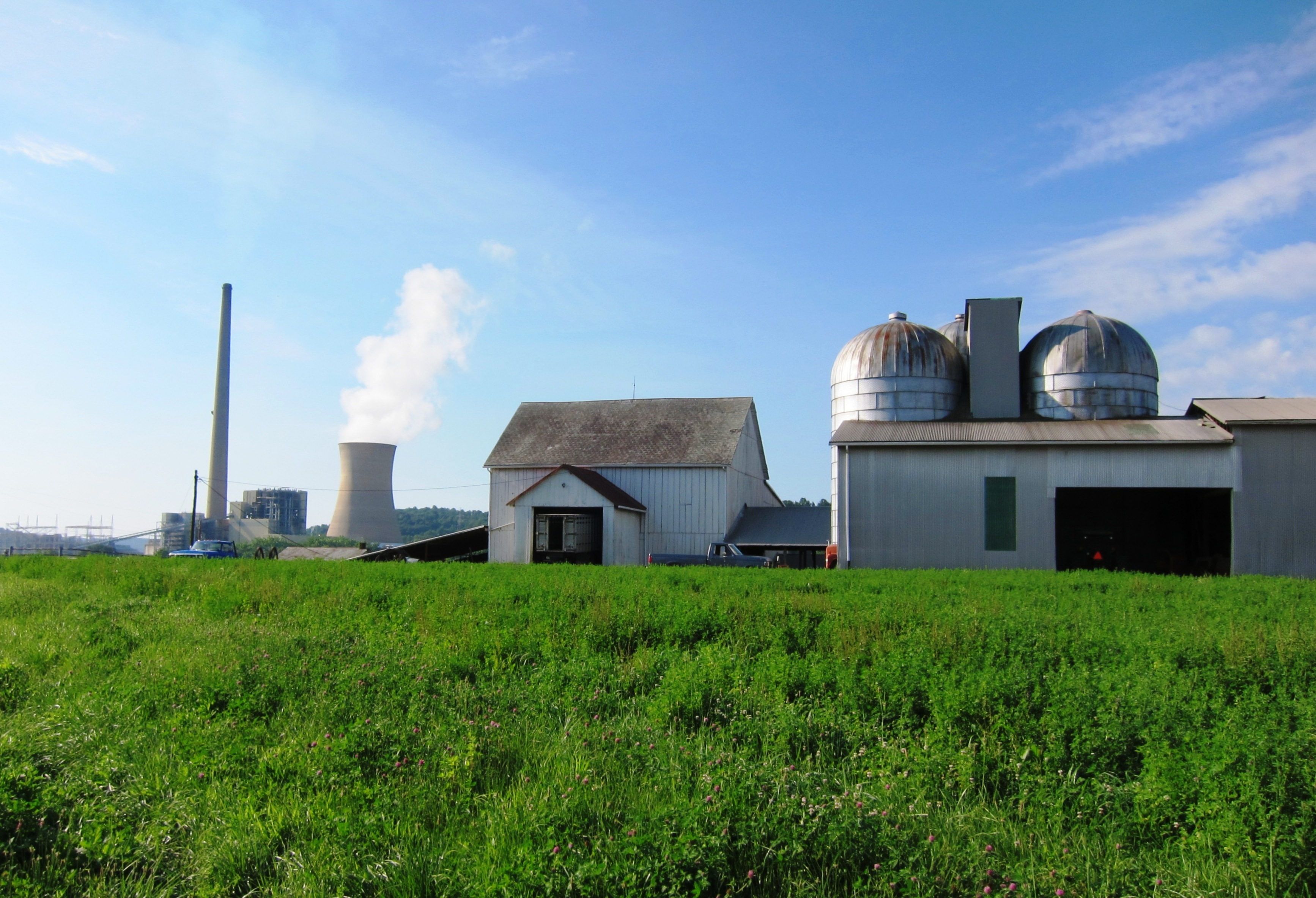 Power Plant and 3 Silos on Farm